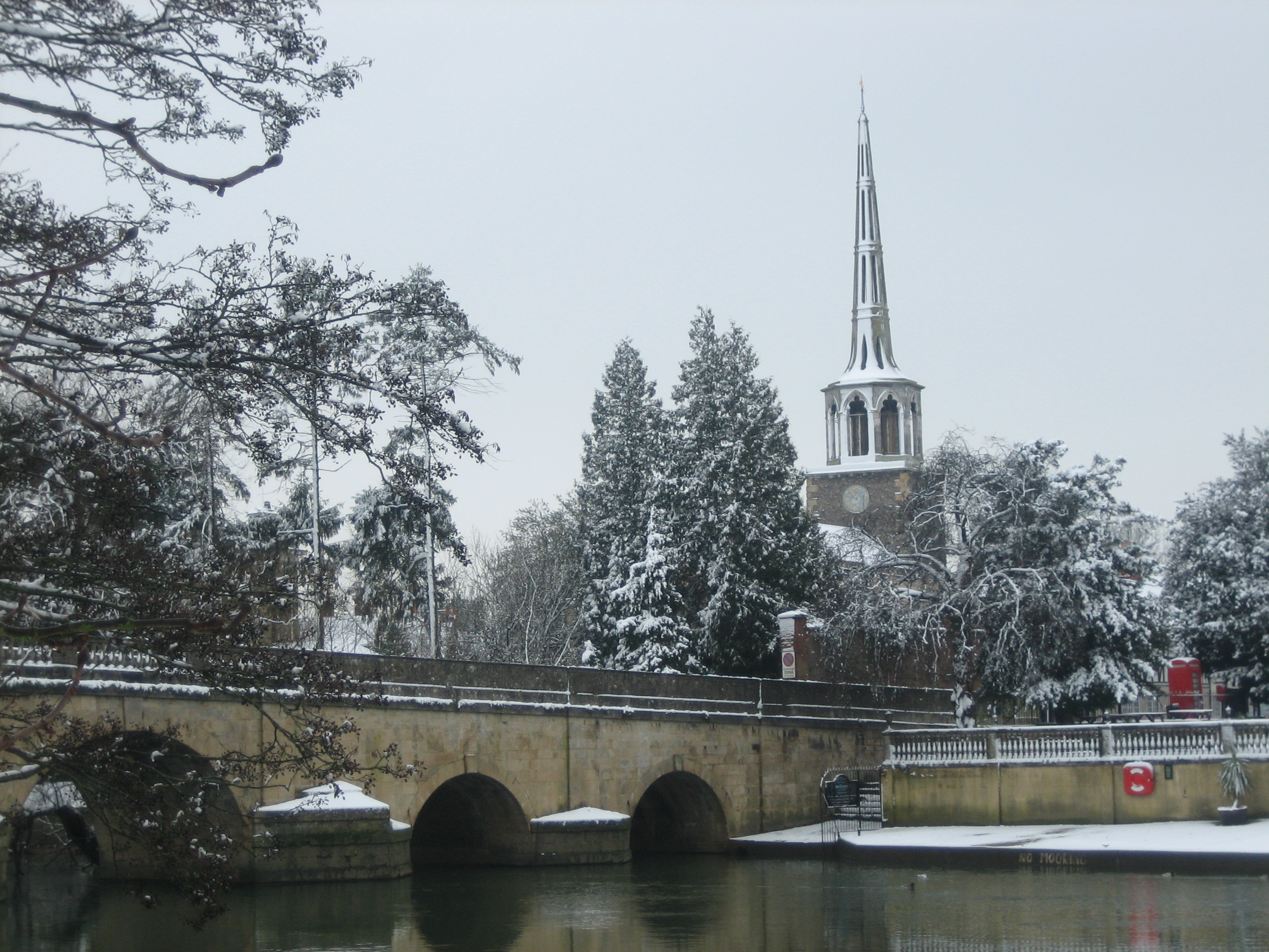 Wallingford Bridge and the tower of St Peter's parish church, Wallingford, Oxfordshire (formerly Berkshire), in snow